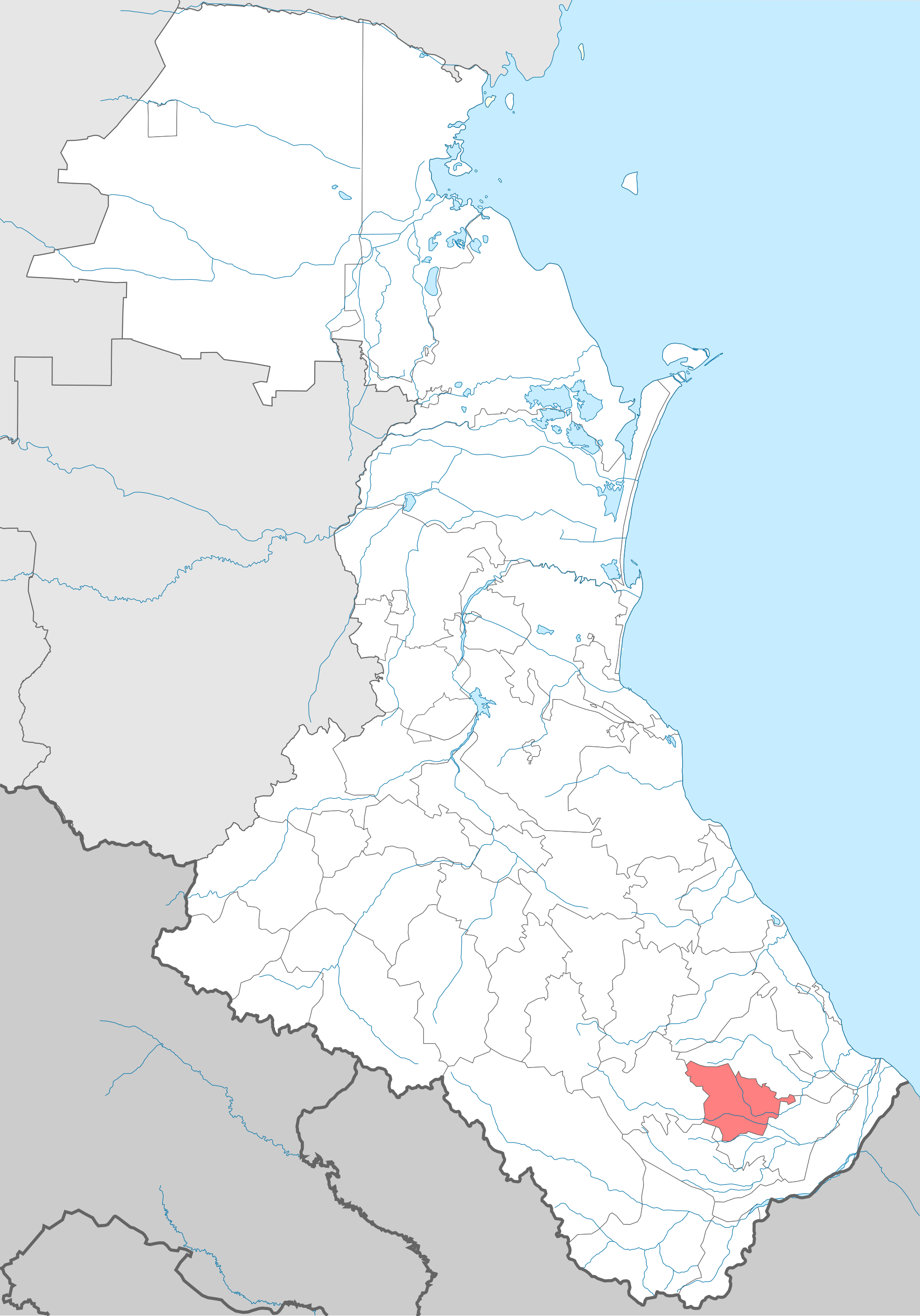 Hivsky district locator map